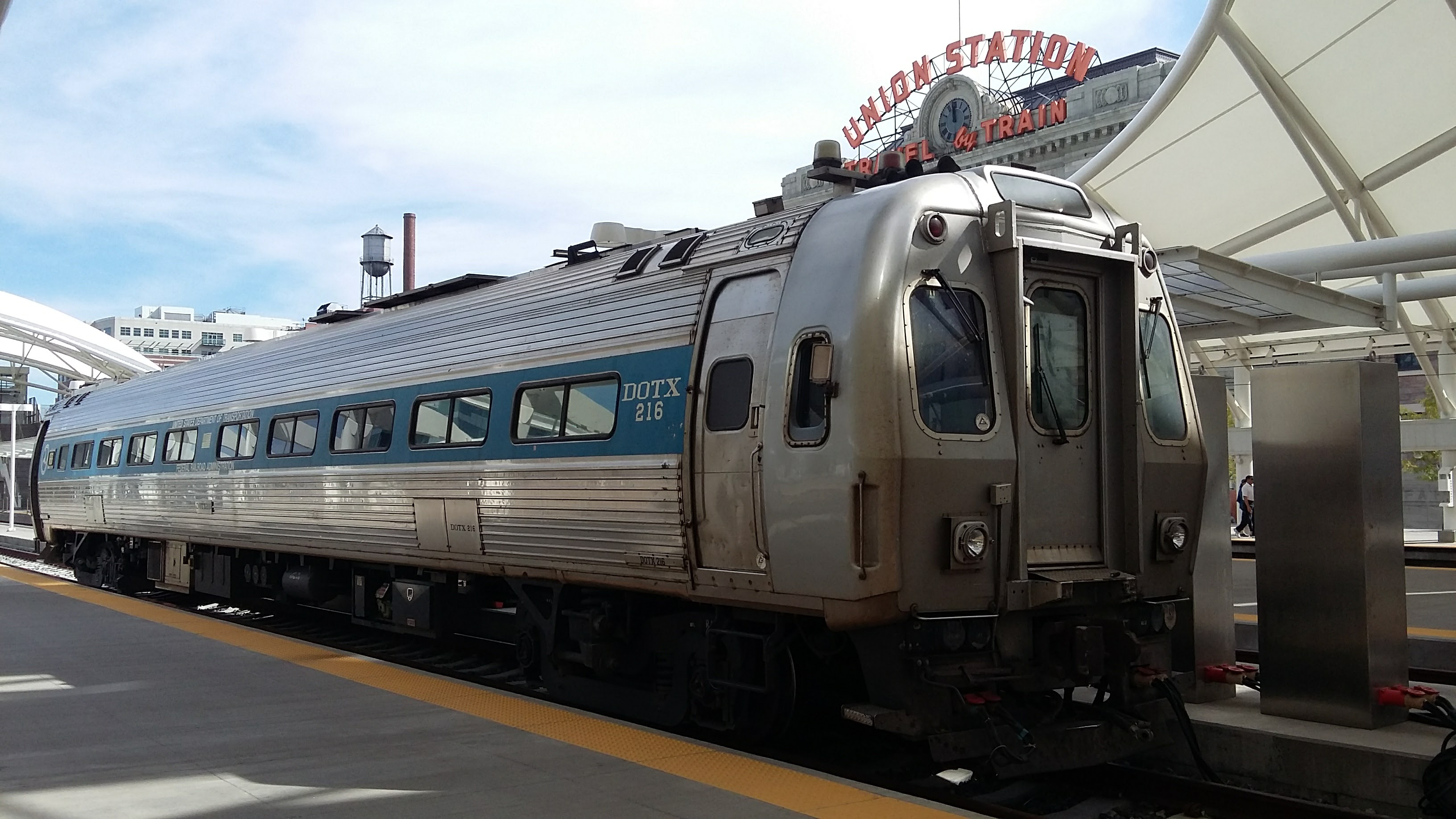 FRA DOTX 216 at Union Station Train Hall in Denver